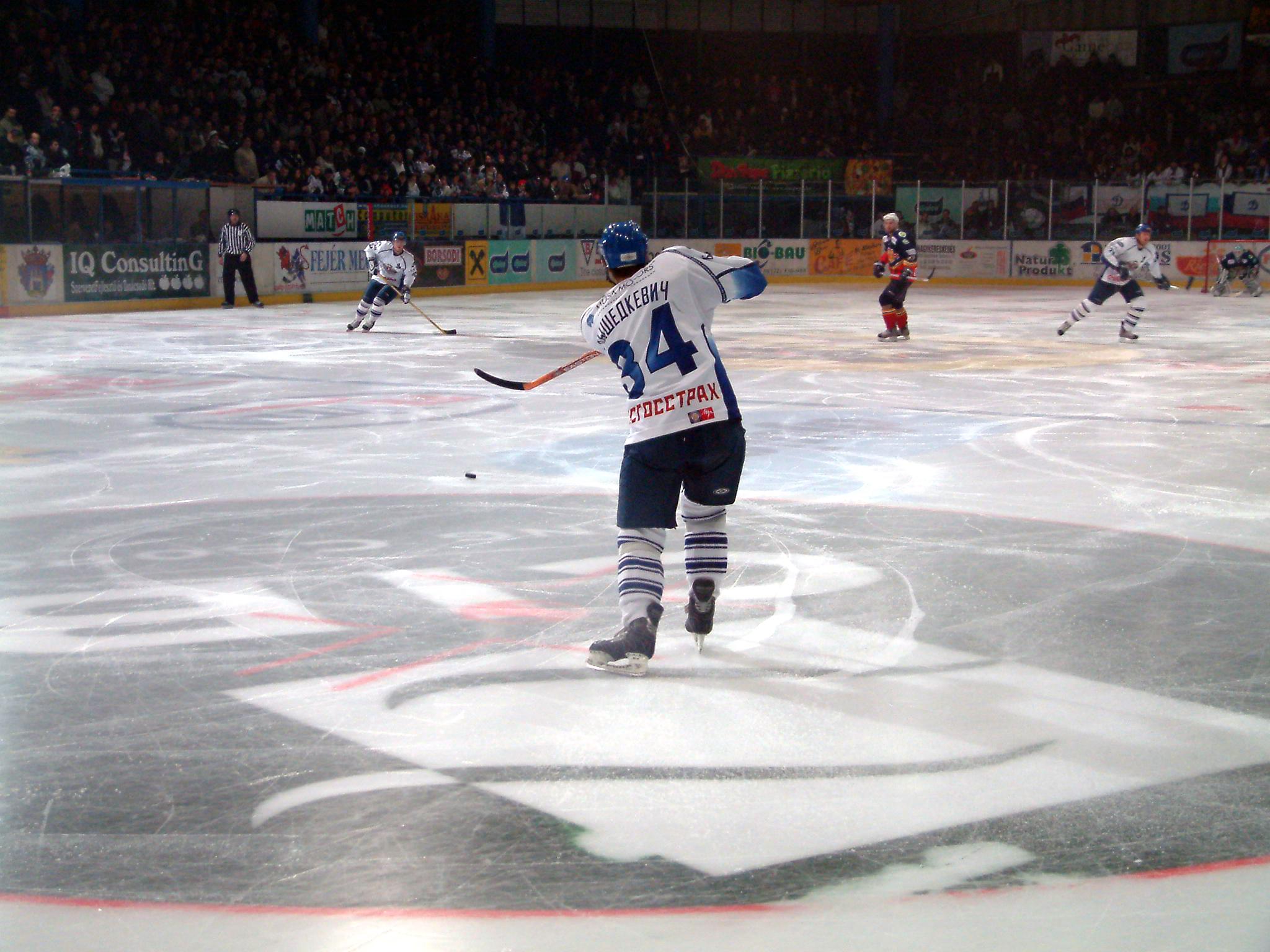 Sergei Wyschedkewitsch (Sergei Vyshedkevich) passing to a team mate of Dynamo Moscow Székesfehérvàr, Continental Cup 2004/05 - Super Final Dinamo Moscow - HKM Zvolen